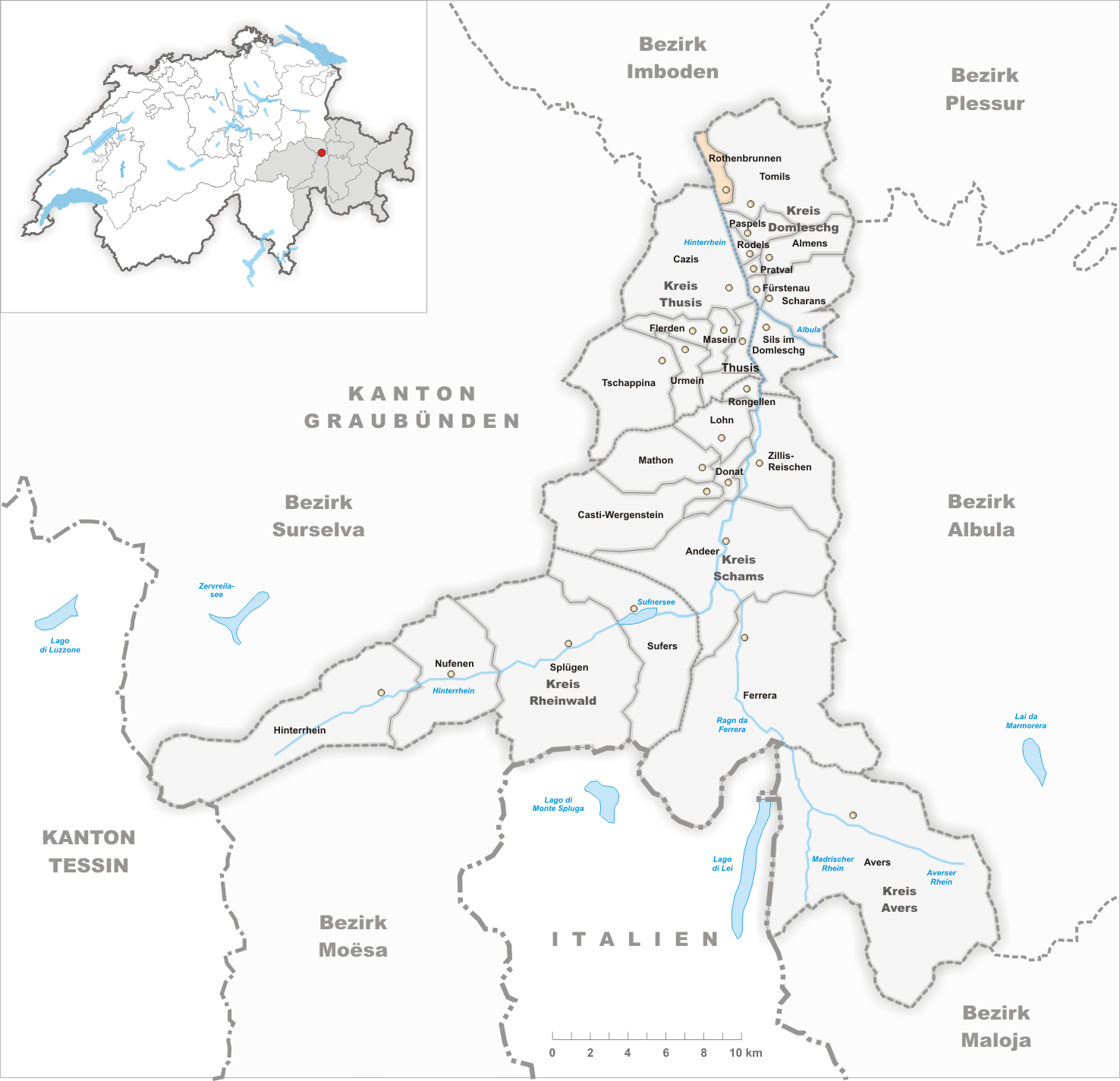 Municipality Rothenbrunnen